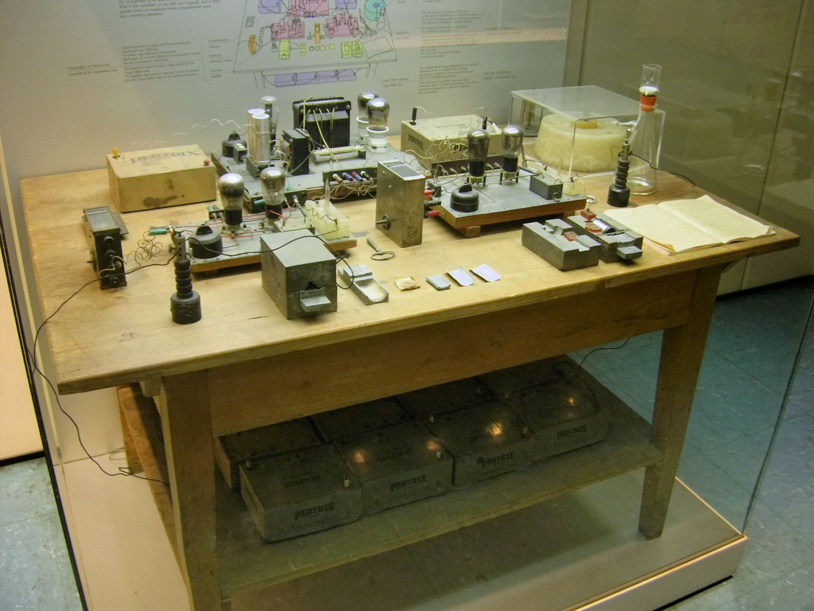 The Experimental Apparatus with which the team of Otto Hahn, and Fritz Strassmann discovered Nuclear Fission in 1938. The arrangement was originally in 3 separate rooms: irradiation, measurement, and chemistry at the Kaiser Wilhelm Institute for Chemistry in Berlin.